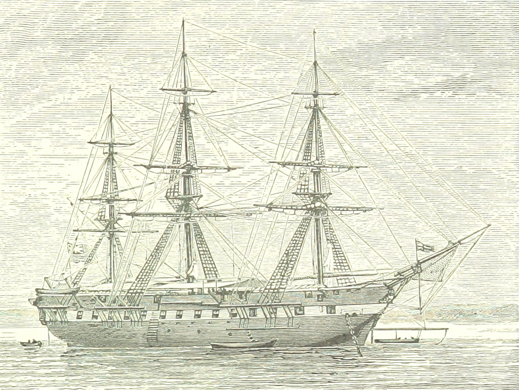 Image extracted from page 321 of Ships, Sailors, and the Sea', by JONES, R. J. Cornewall. Original held and digitised by the British Library. Copied from Flickr. Note: The colours, contrast and appearance of these illustrations are unlikely to be true to life. They are derived from scanned images that have been enhanced for machine interpretation and have been altered from their originals.